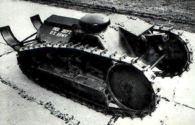 Ford Three-ton tank (Special Tractor M1918) at Aberdeen Proving Ground